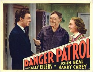 Lobby card for the 1937 film, Danger Patrol Other information The item has no copyright markings. Type at lower right reads, "COUNTRY OF ORIGIN U.S.A." The motion picture itself is now in the public domain.